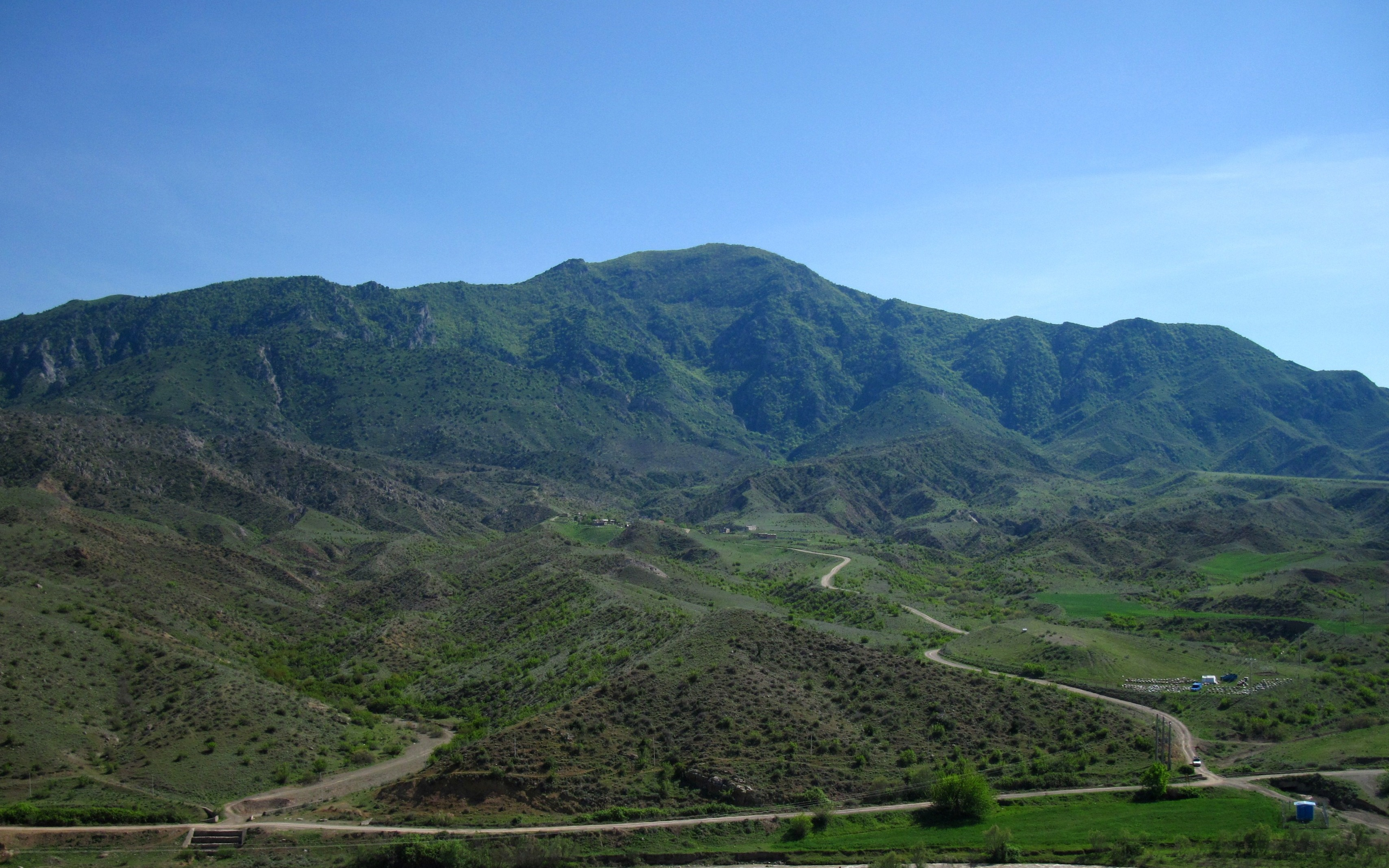 Ravanbakhsh Leysi has taken this photo of Daraghazi for wikipedia.